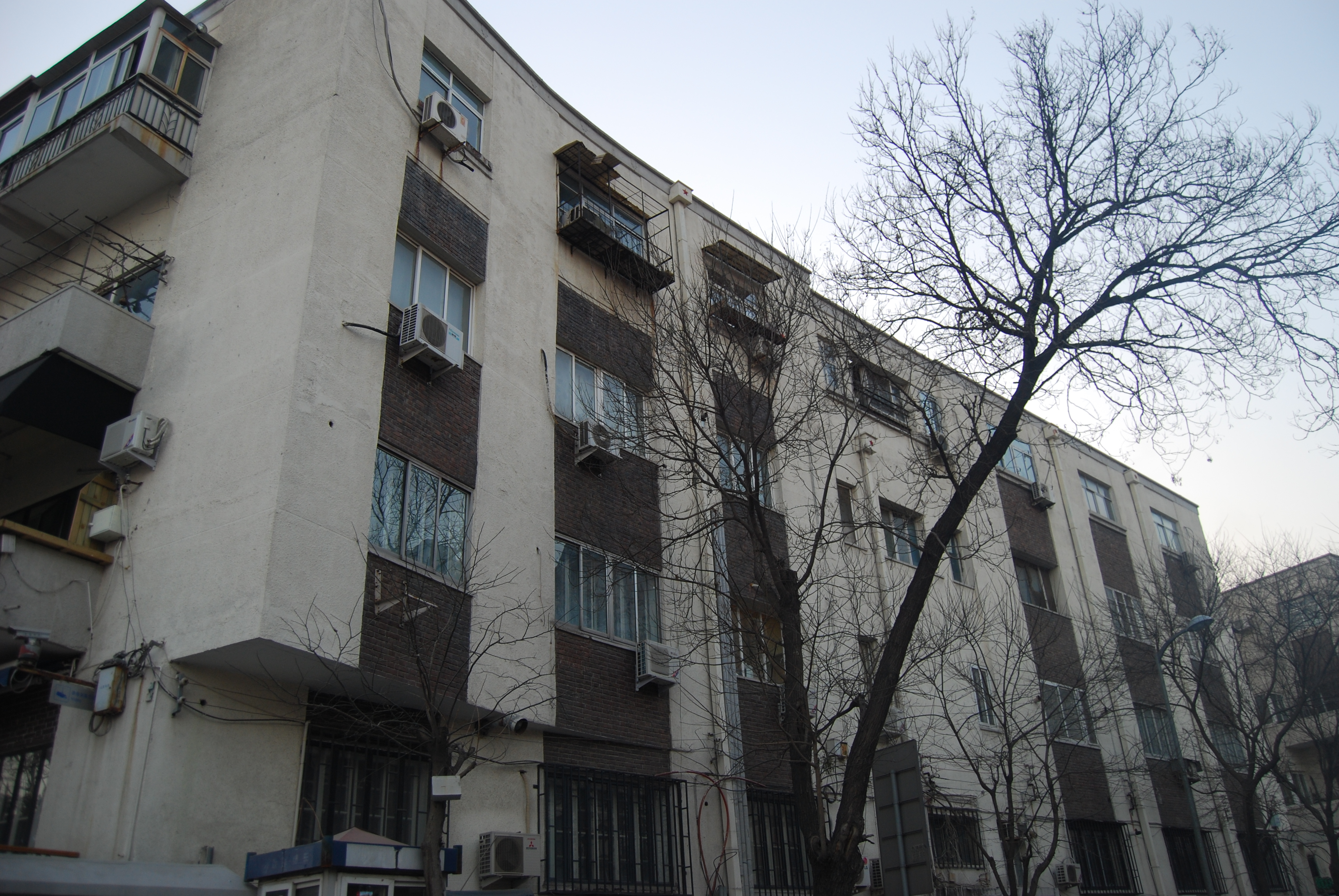 Min Yuan Apartments in Chongqing Dao No. 66–68, Heping District, Tianjin